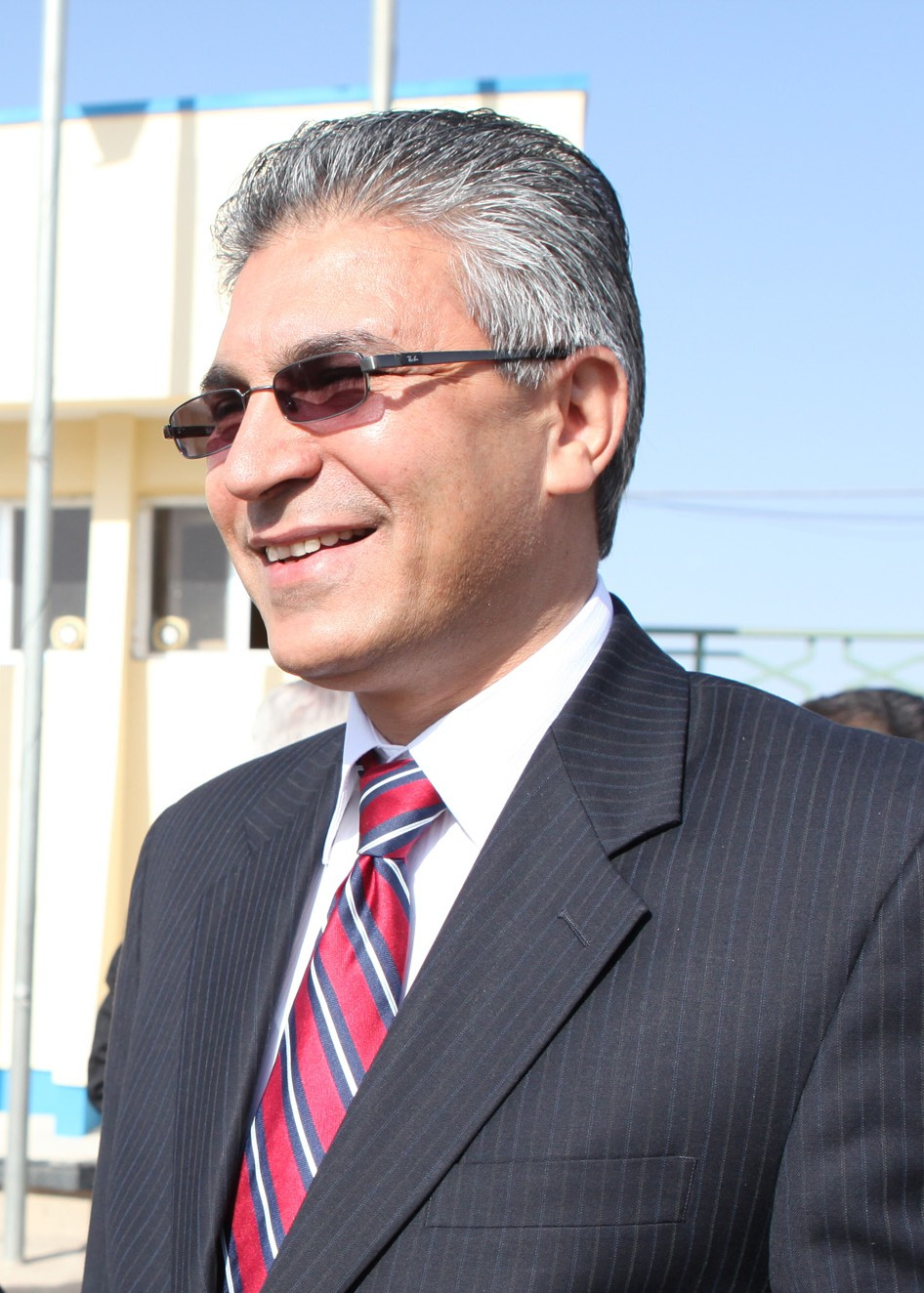 Herat Governor Dr. Da-ud Saba greets a delegation from the U.S. Embassy at the airport in Herat, Afghanistan.